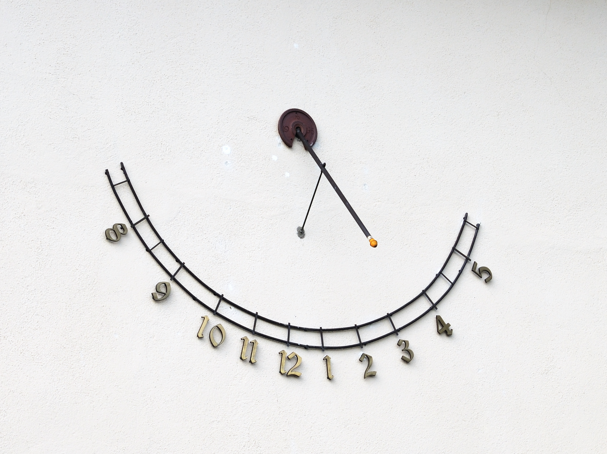 Vogelbach: Protestant Church